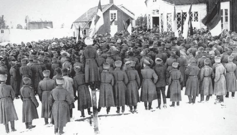 A revolutionary meeting of Russian soldiers in March 1917 in Dalkarby of Jomala in the province of Aland Islands, Finland